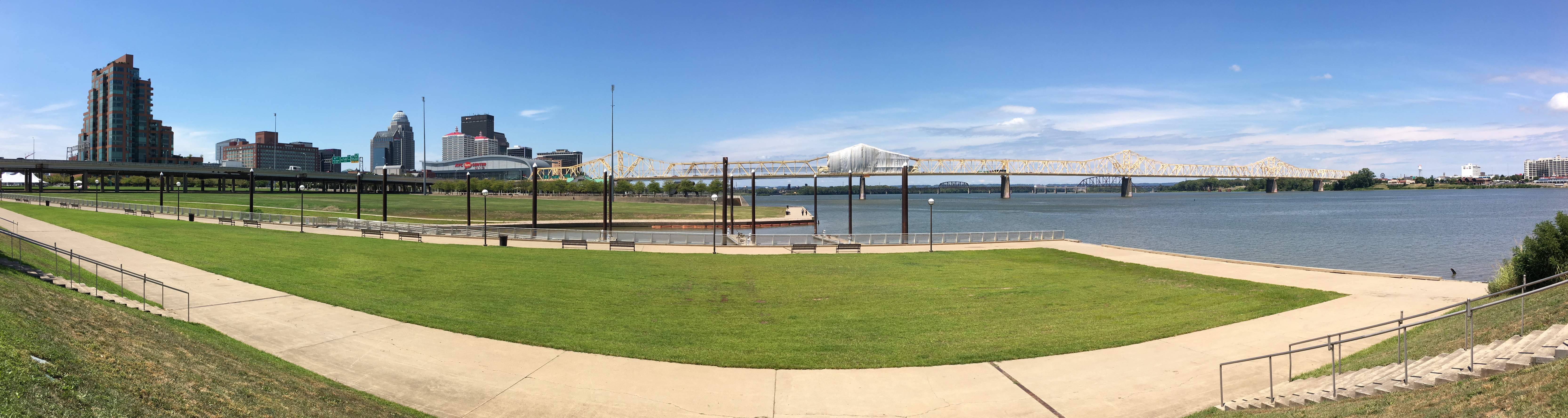 Waterfront Park in Louisville, Kentucky with downtown, George Rogers Clark Memorial Bridge, and the Ohio River visible